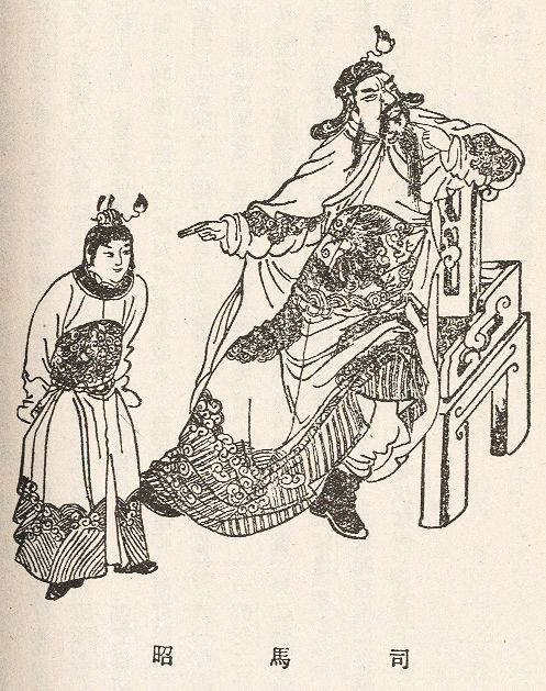 Portrait of the statesman Sima Zhao (seated) from a Qing Dynasty edition of The Romance of the Three Kingdoms.